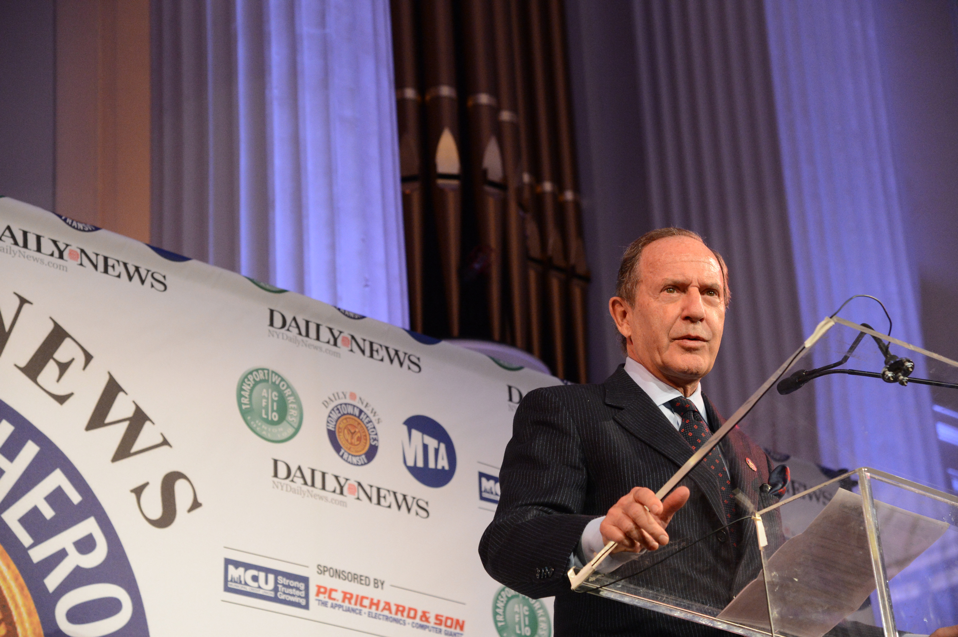 The New York Daily News recognized 11 employees of MTA New York City Transit at the first annual Hometown Heroes Awards breakfast on January 29, 2013 at 583 Park Ave. The honorees were singled out for their actions above and beyond the call of duty. Daily News Chairman and Publisher Mortimer Zuckerman. Photo: MTA New York City Transit / Marc A. Hermann.